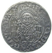 Albus (Weisspfennig)